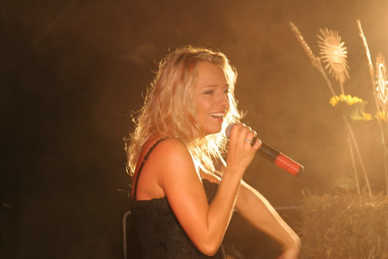 Violeta Riaubiskyte at a Concert in Pasvalys!